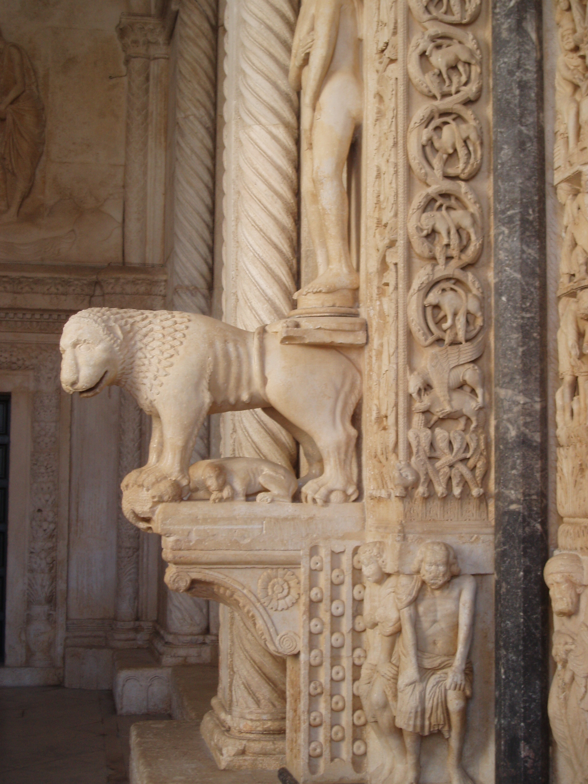 The entrance to the Cathedral of St. Lawrence in Trogir